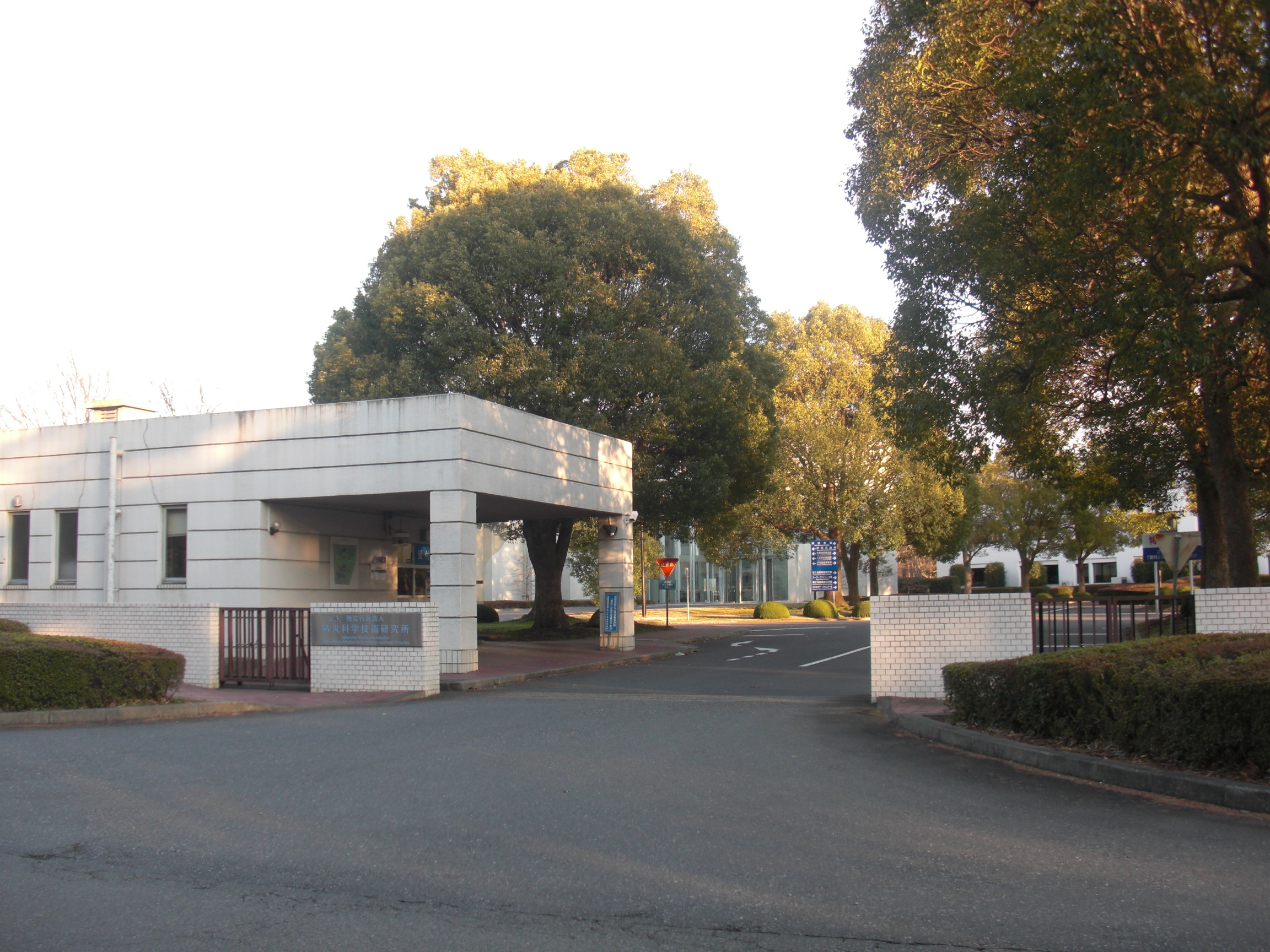 This is the National Research Institute for Earth Science and Disaster Prevention in Tsukuba, Ibaraki, Japan.